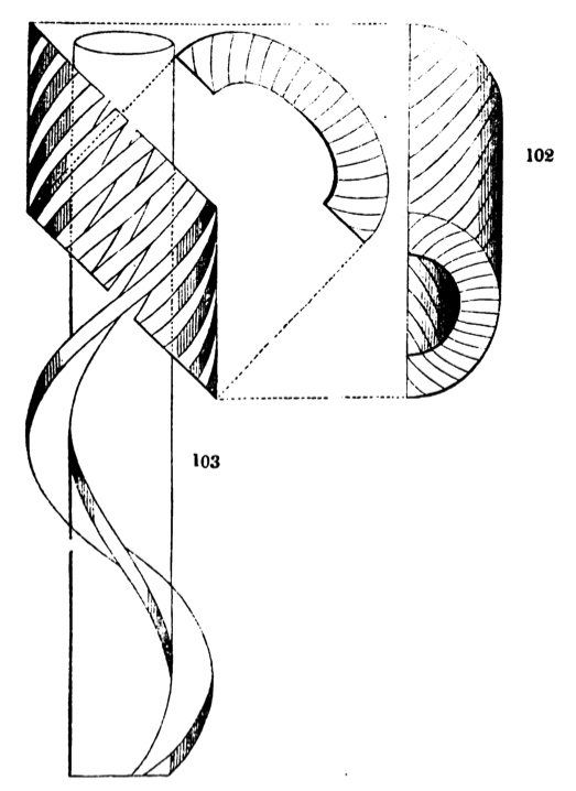 Plate from Fox's article, "On the Construction of Skew Arches"